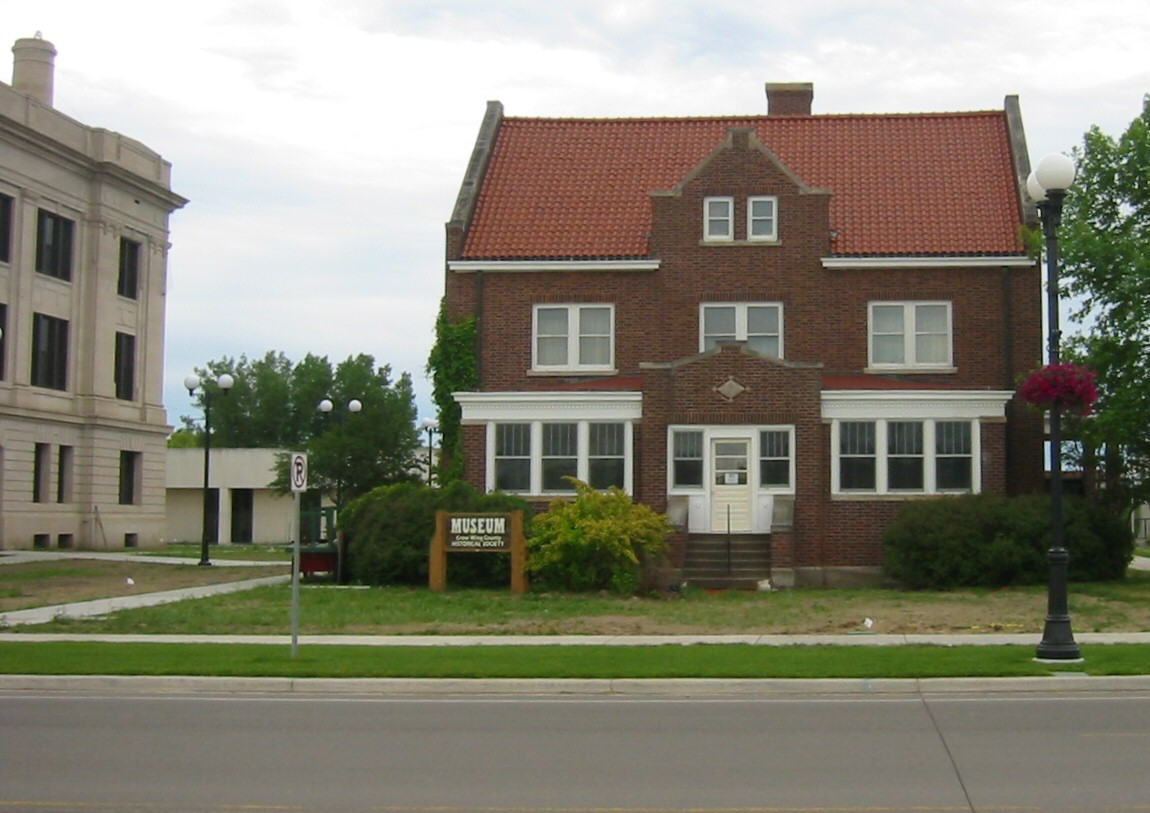 The jail adjacent to the Crow Wing County Courthouse in Brainerd, Minnesota